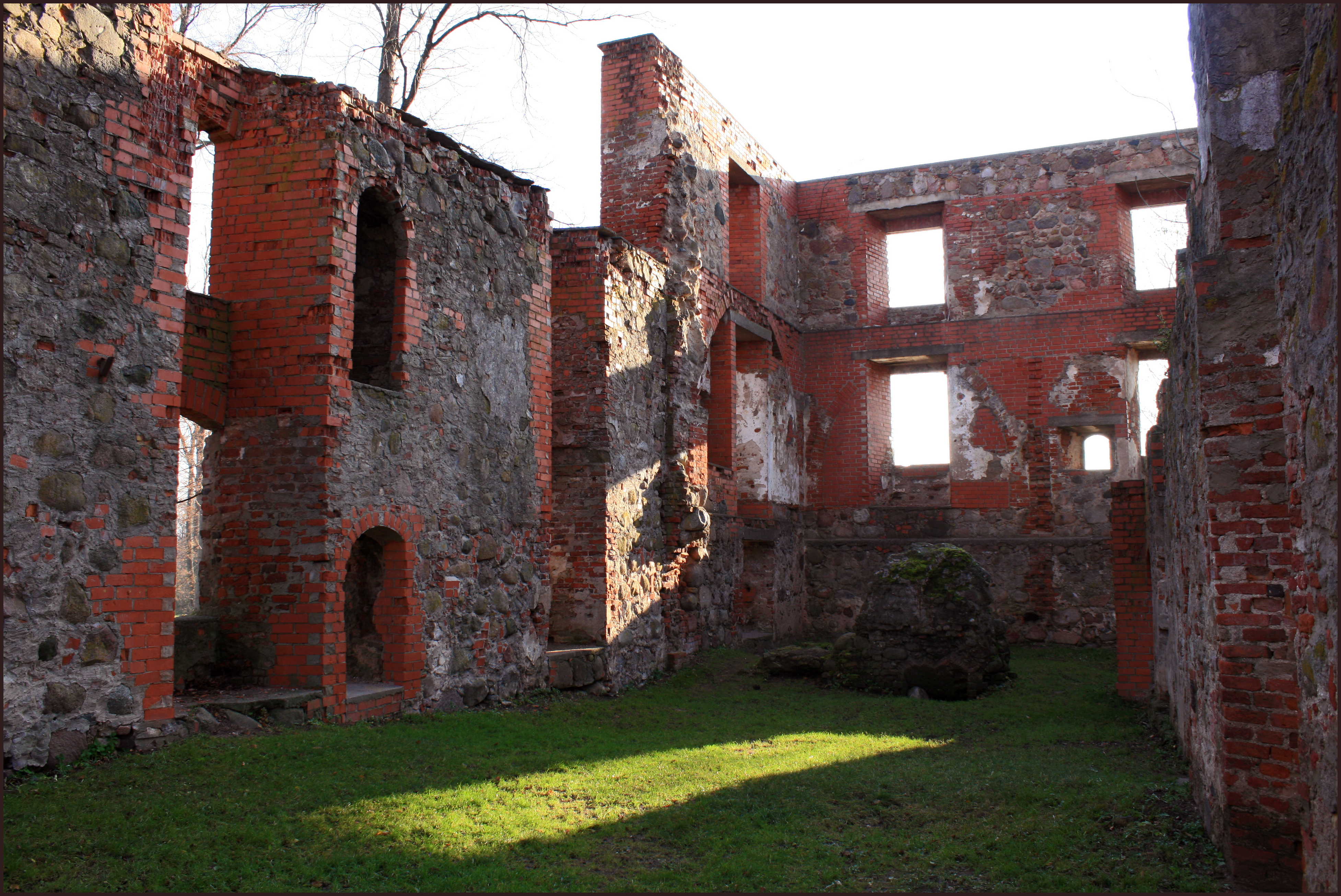 Grobiņa Castle ruinsLatviešu: Grobiņas pilsdrupas